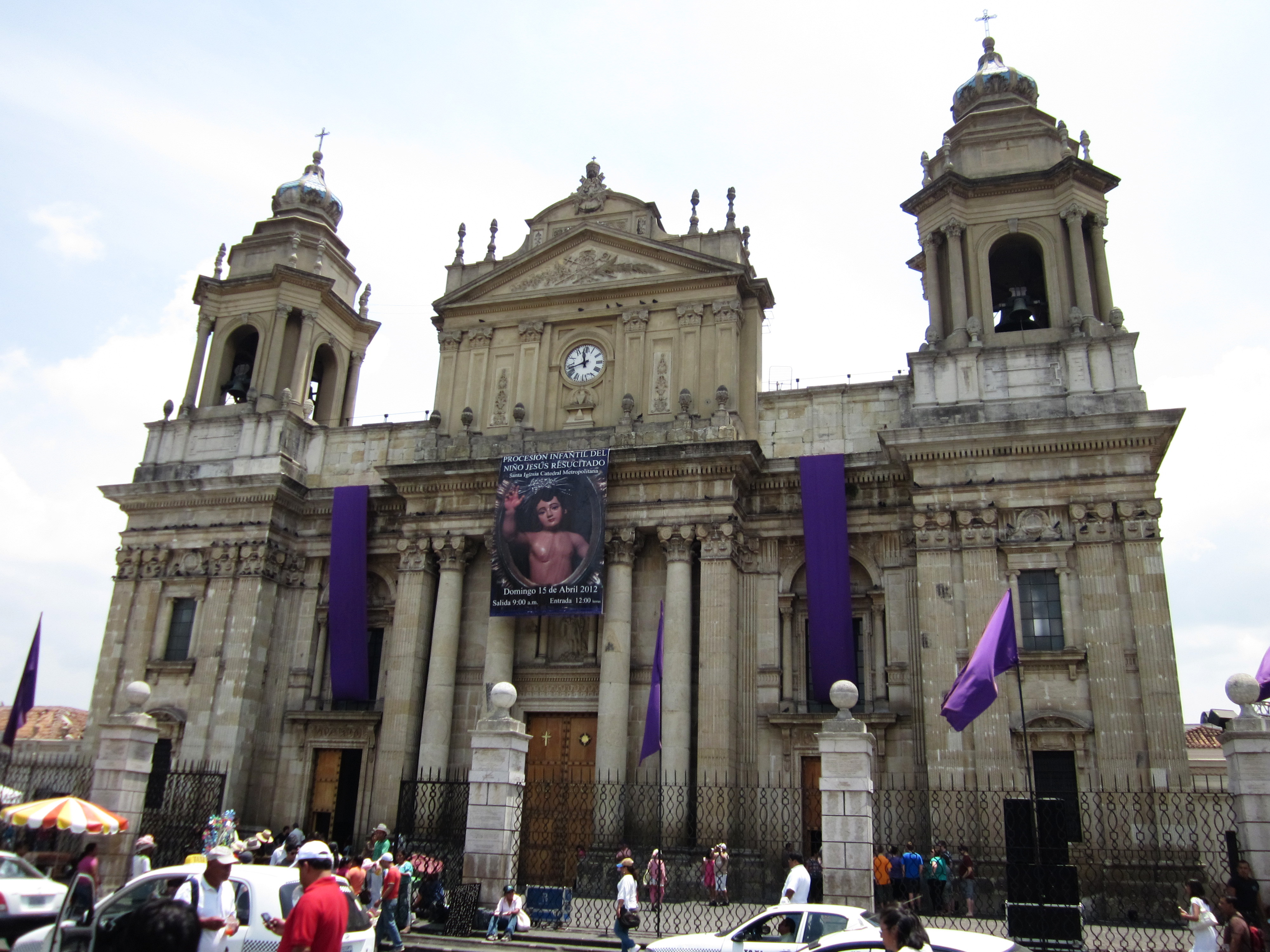 The Metropolitan Cathedral in Guatemala City, Guatemala.